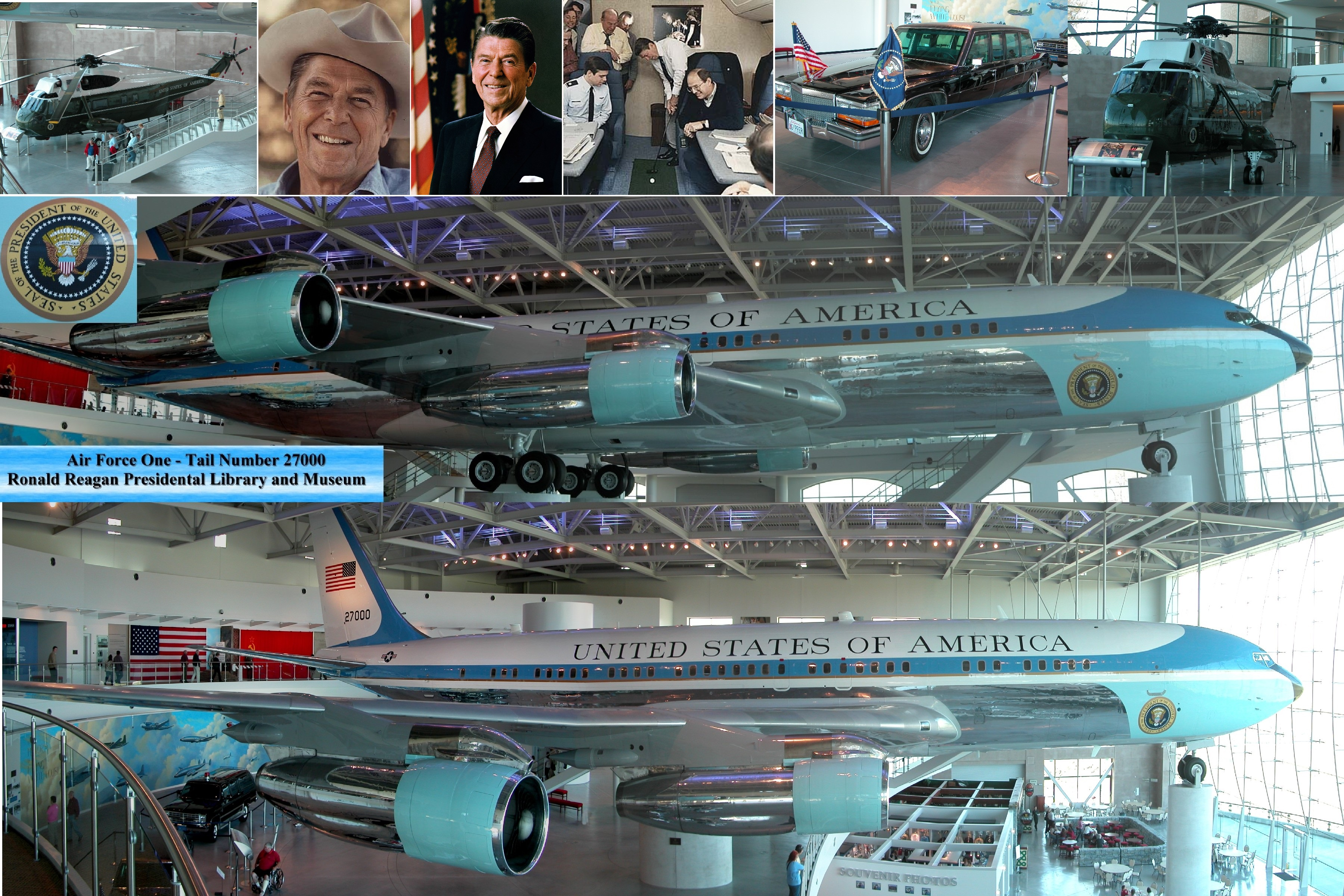 Collage of the Air Force One Pavillion at the Ronald Reagan Presidential Library